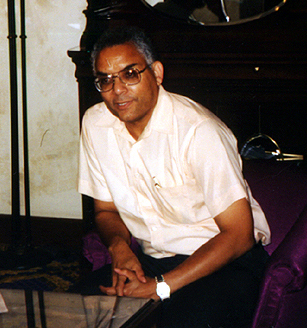 Dr. Raymond L Johnson At the Conference for African American Researchers in the Mathematical Sciences (CAARMS), Mathematical Sciences Research Institute (MSRI), Berkeley, California in June 1995.